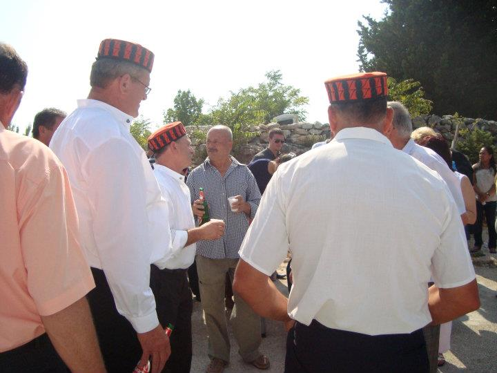 folk singers from Rastovac,Marina,Croatia